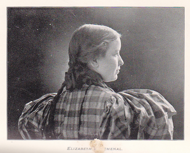 from the Earlham College yearbook, class of 1896